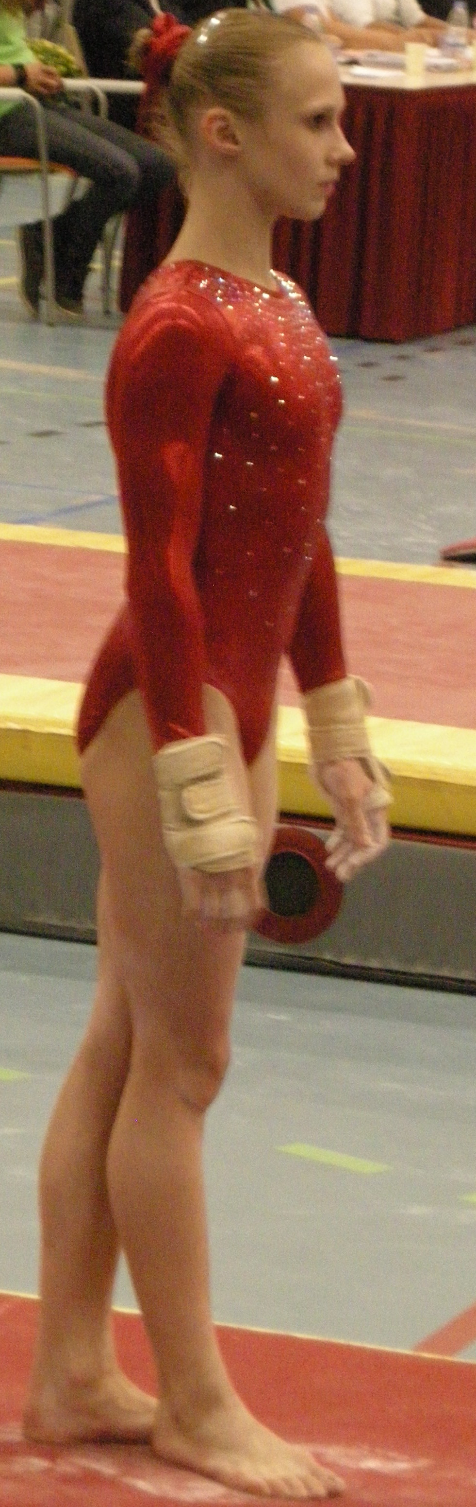 Gymnast Anna Dementyeva performing in Waalwijk The Nederlands on September 18, 2010